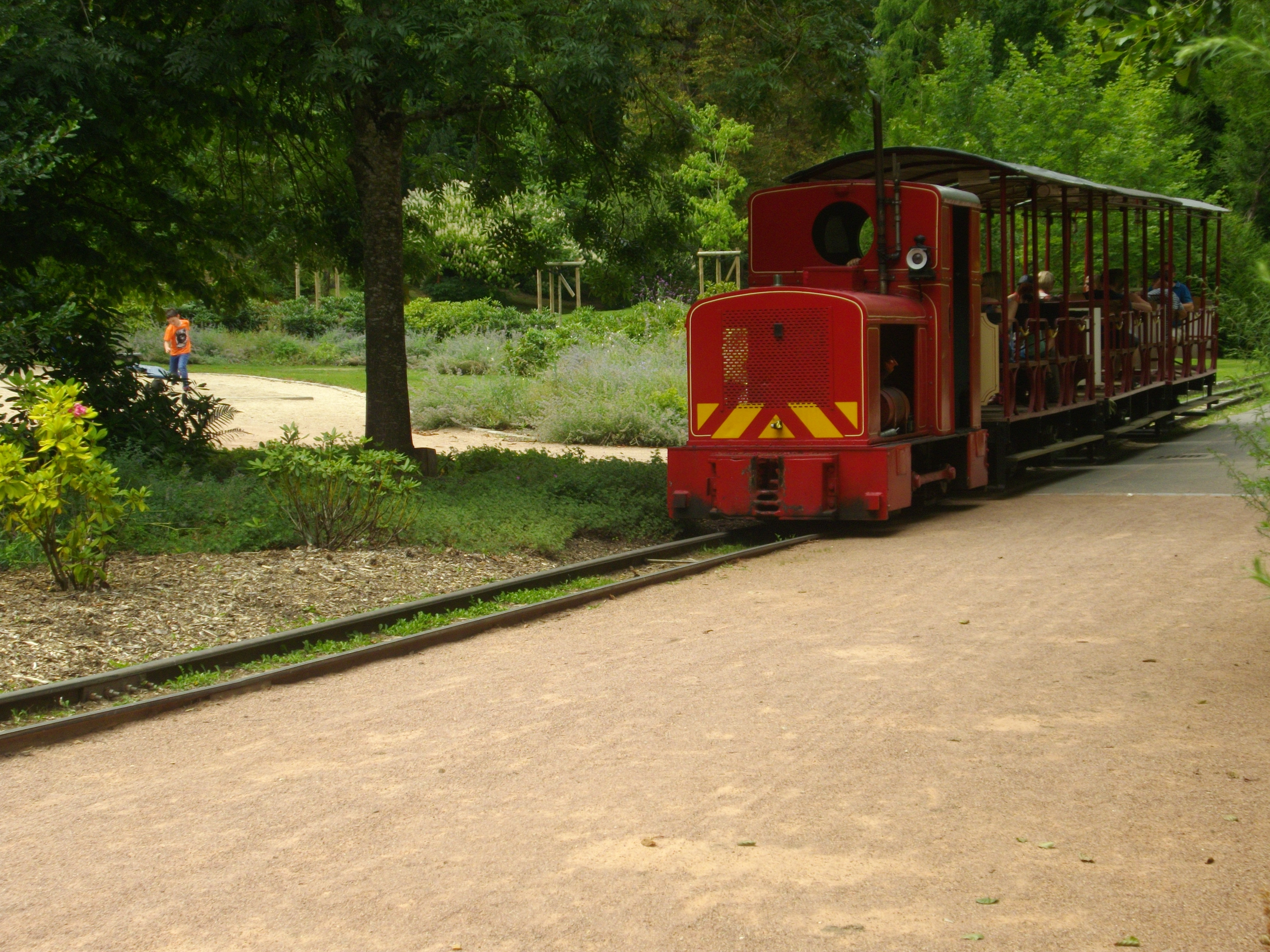 La Source floral garden, Orléans (Loiret, France)